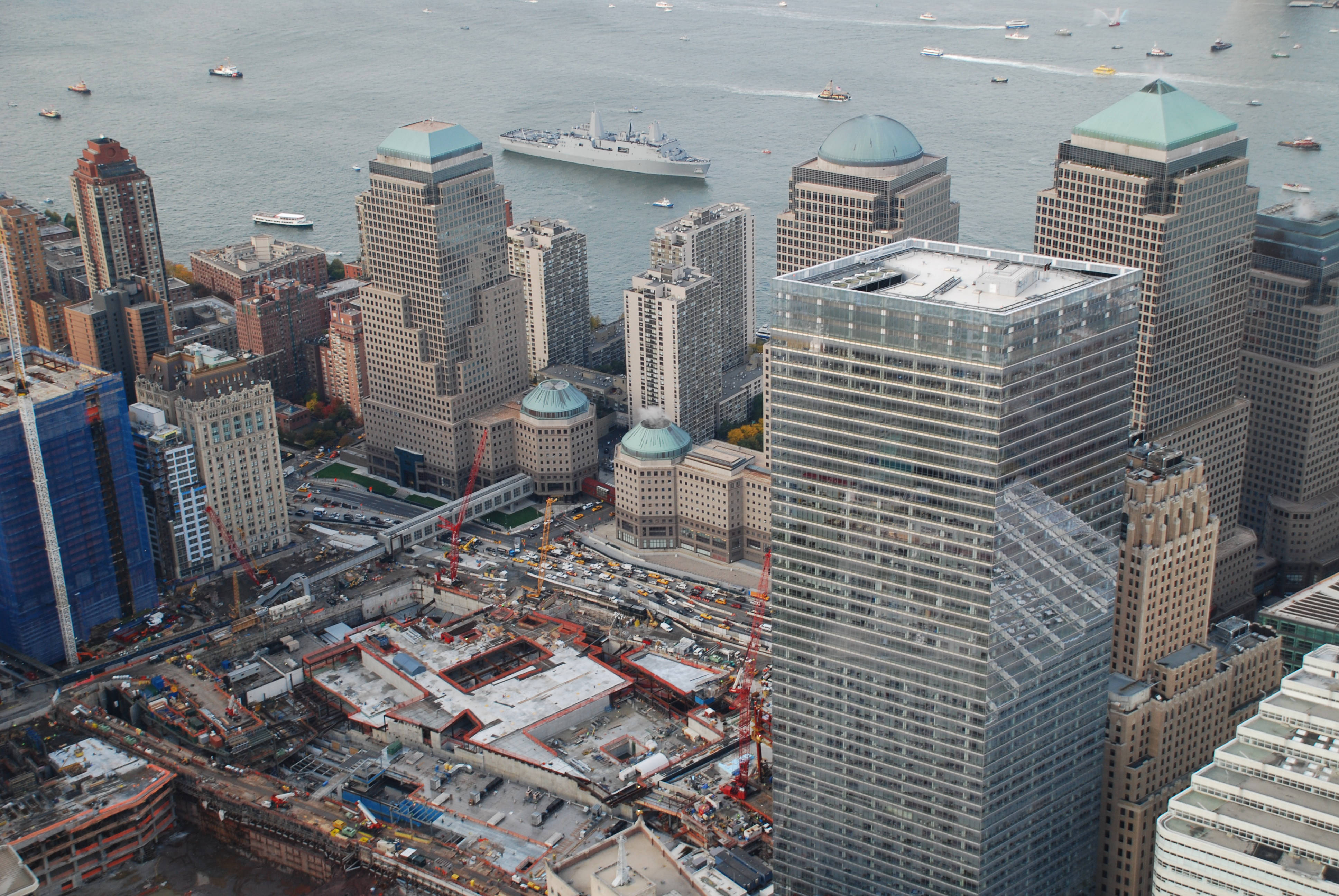 NEW YORK (Nov. 2, 2009) The amphibious dock landing ship Pre-Commissioning Unit (PCU) New York (LPD 21) transits New York Harbor past the World Trade Center site. The ship has 7.5 tons of steel from the World Trade Center in her bow and will be commissioned Nov. 7 in New York City. (U.S. Navy photo by Chief Mass Communication Specialist Eric M. Durie/Released)